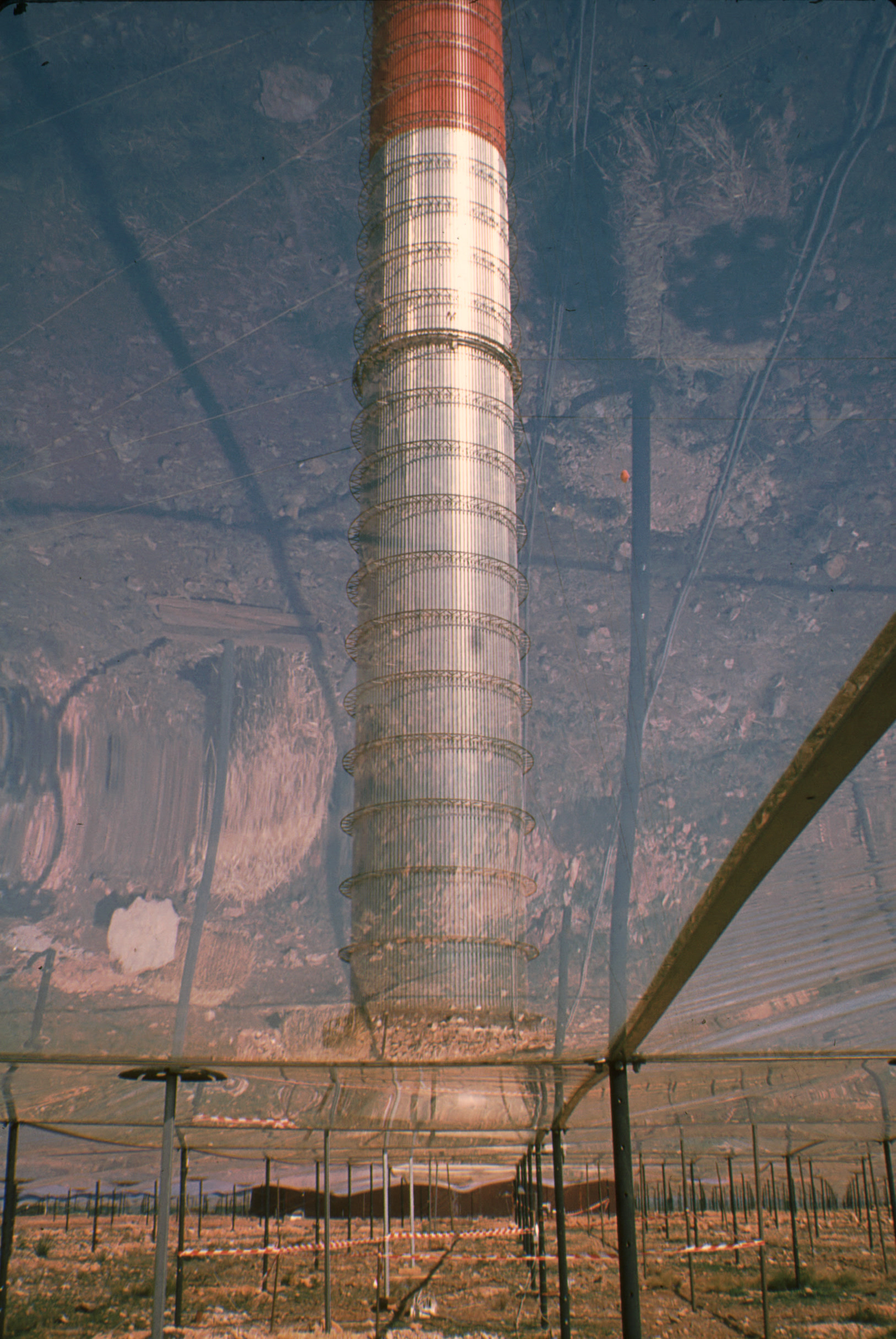 Solar Chimney prototype at Manzanares, Spain. Tower seen through the polyester roof.